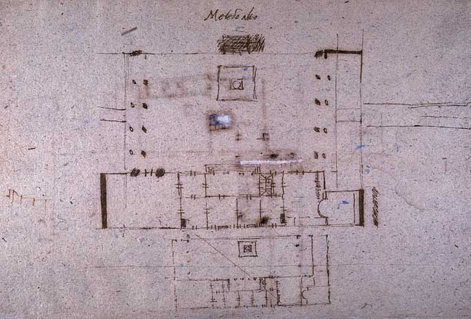 Villa Arnaldi in Meledo di Sarego, Province of Vicenza. Sketch (1547-1548) by Andrea Palladio. Vicenza, Biblioteca Civica Bertoliana